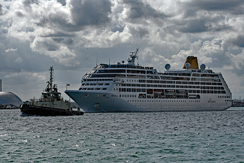 Adonia departing Southampton escorted by tug Svitzer Sussex IMO: 9210220 Other names: R Eight, Minerva II, Royal Princess, Azamara Pursuit, Information about Adonia (ship, 2001) may be found at IMO 9210220.A ship can change name and flag state through time, but the IMO number remains the same through the hull's entire lifetime. As a result, it can be useful to identify a ship by using the IMO number.